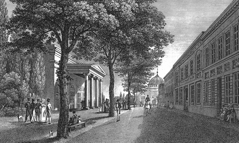 Copper engraving by Anton Radl (1774–1852) from the year 1822 showing the street Ostertorwall in Bremen. Left hand the Theater (built 1792), in the background the silhouette of the old Ostertor tower.